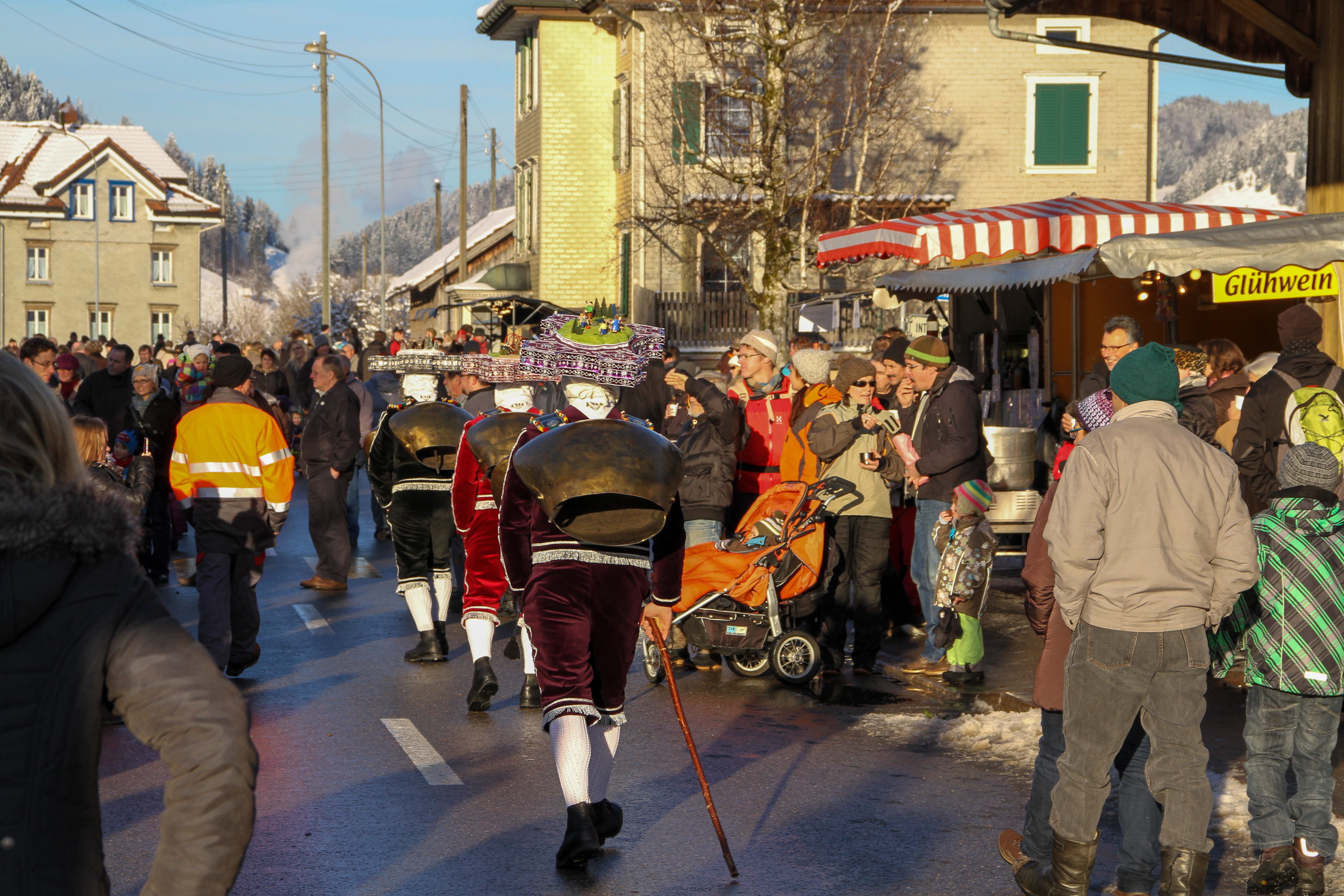 Celebrating "old" New Year's Eve in Urnäsch, Appenzell, Switzerland (2013)